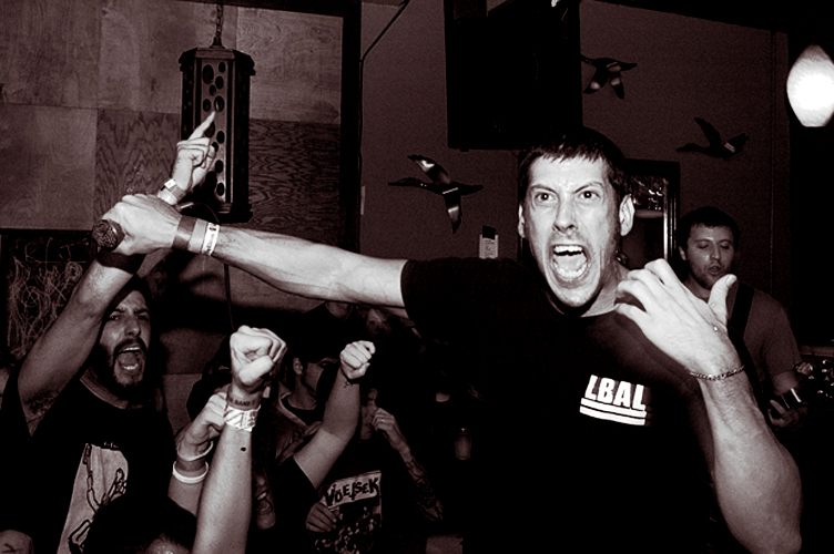 Live at Fest Five, October 2006.